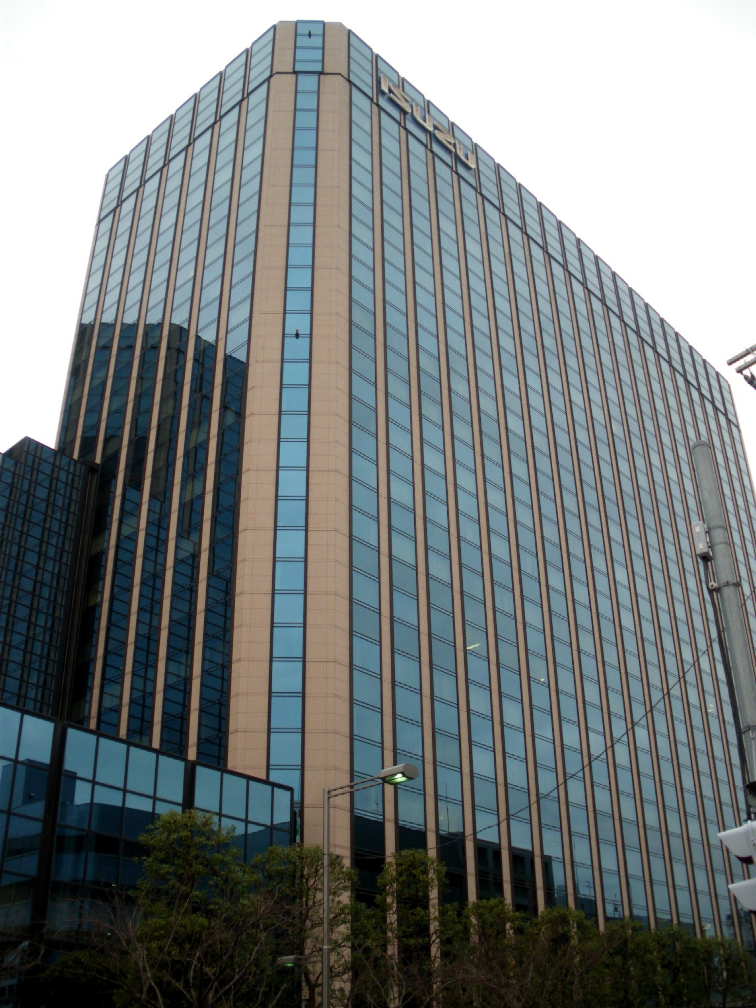 Isuzu Motors Limited head office(Minamioi,Shinagawa,Tokyo)